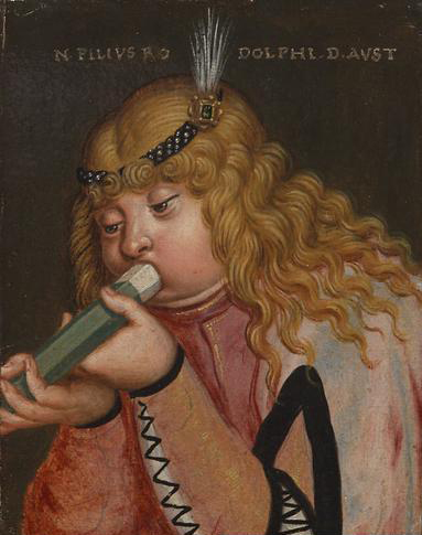 A son of Rudolf III of Austria, died young